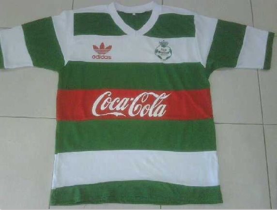 santos